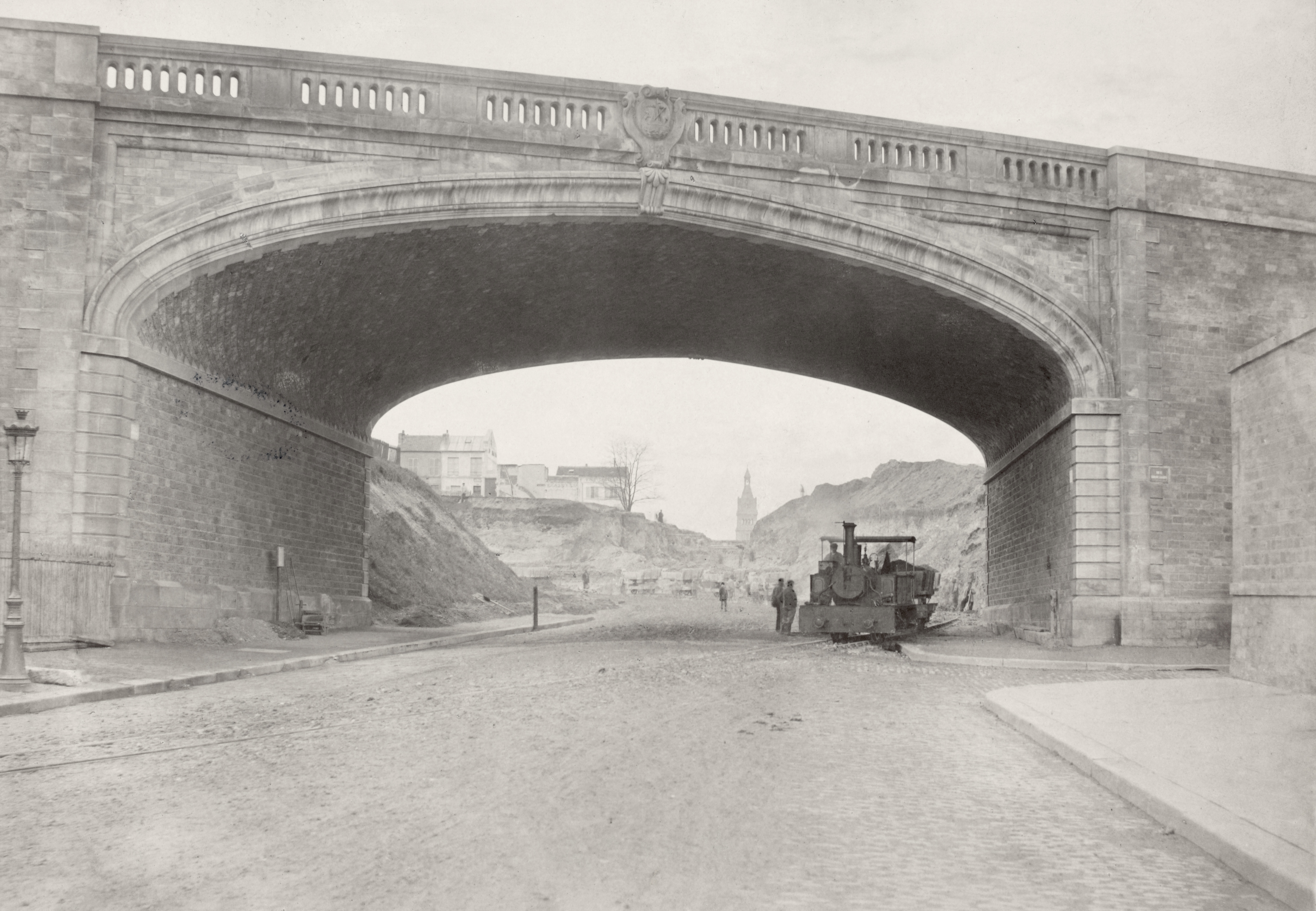 Looking along unsurfaced road extending under a stone bridge, workmen with steam engine equipment under bridge, piles of turned over earth in background.